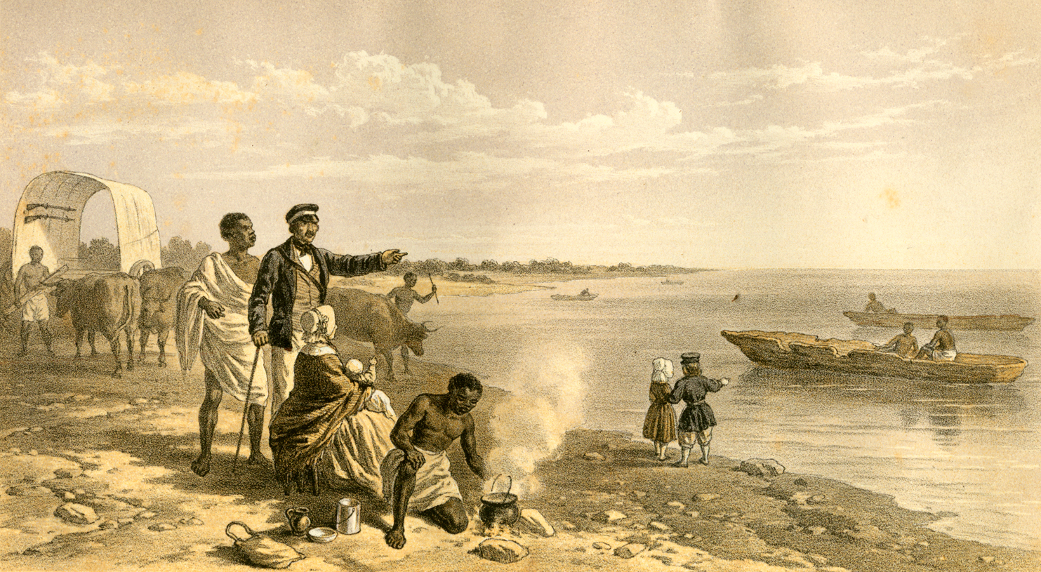 Lake Ngami Discovered by Oswell, Murray & Livingstone. "Twelve days after our departure from the waggons at Ngabisane we came to the north-east end of Lake Ngami; and on the 1st of August, 1849, we went down together to the broad part, and, for the first time, this fine-looking sheet of water was beheld by Europeans. The direction of the lake seemed to be N.N.E. and S.S.W. by compass. . . . It is shallow, for I subsequently saw a native punting his canoe over seven or eight miles of the northeast end; it can never, therefore, be of much value as a commercial highway." [pp. 65-66]